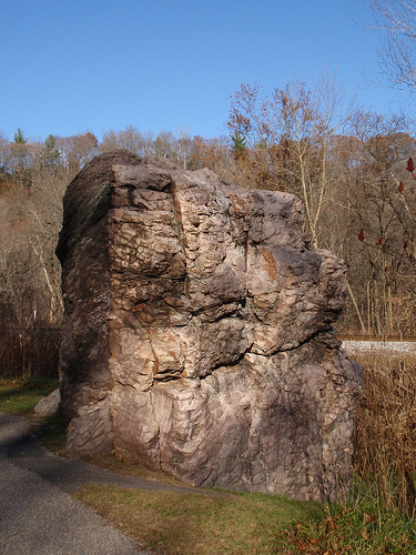 Van Hise Rock near Rock Springs, Wisconsin, United States